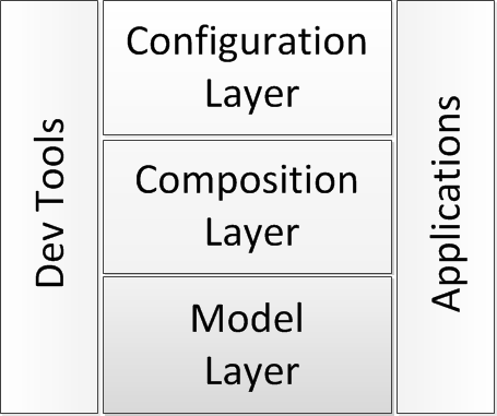 Architectural layers of the BioMA simulation system